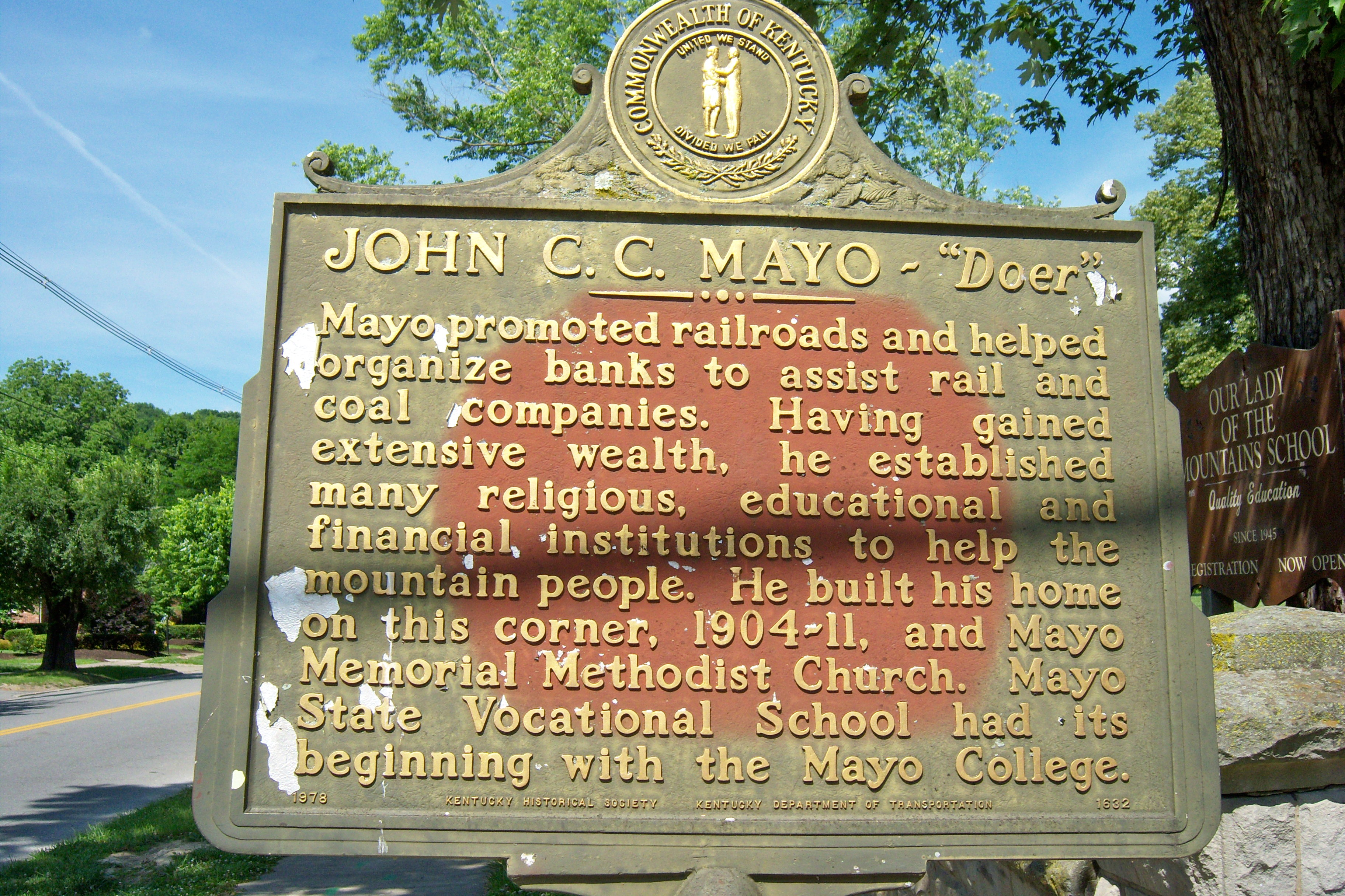 John C.C. Mayo historical marker at the corner of Third and College Street in Paintsville, Kentucky.